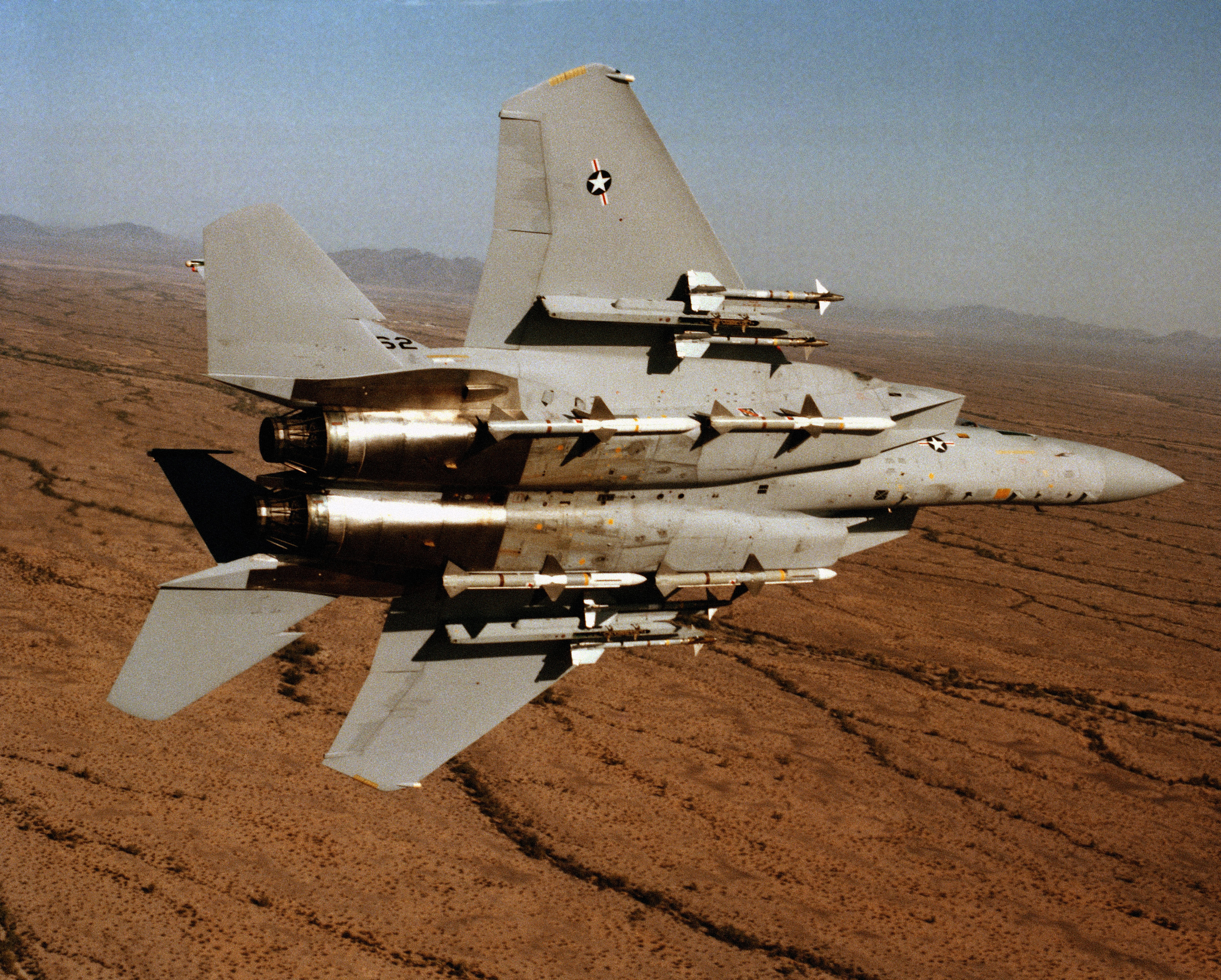 An air-to-air underside view of an F-15 Eagle aircraft from the 555th Tactical Fighter Training Squadron, 405th Tactical Training Wing, Luke Air Force Base, Arizona, banking to the left. The aircraft is equipped with four AIM-9 Sidewinder missiles on the wing pylons and four fuselage-mounted AIM-7 Sparrow missiles.